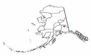 Adapted from Wikipedia's AK borough maps by Seth Ilys.